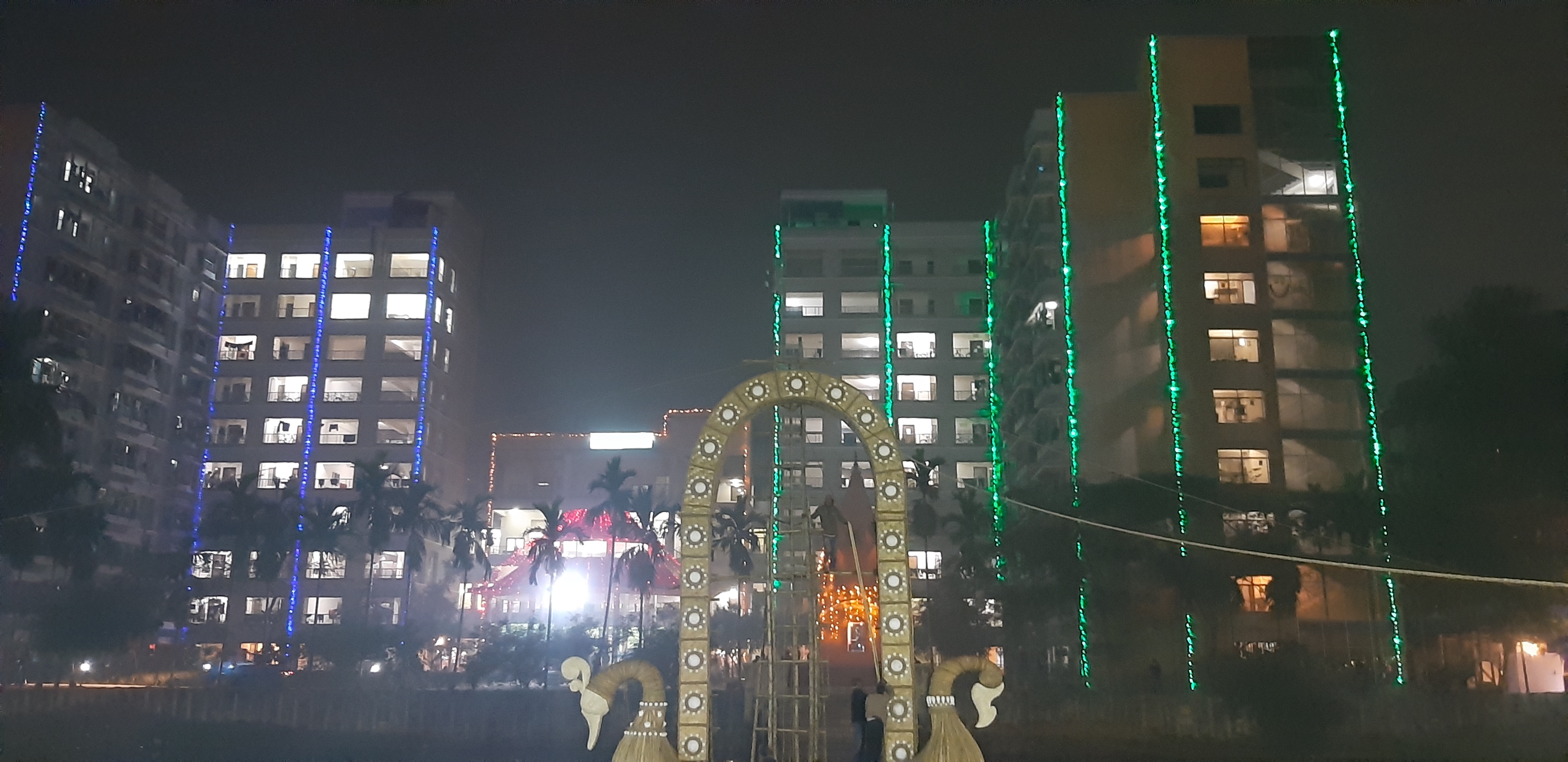 Jagannath hall University of Dhaka